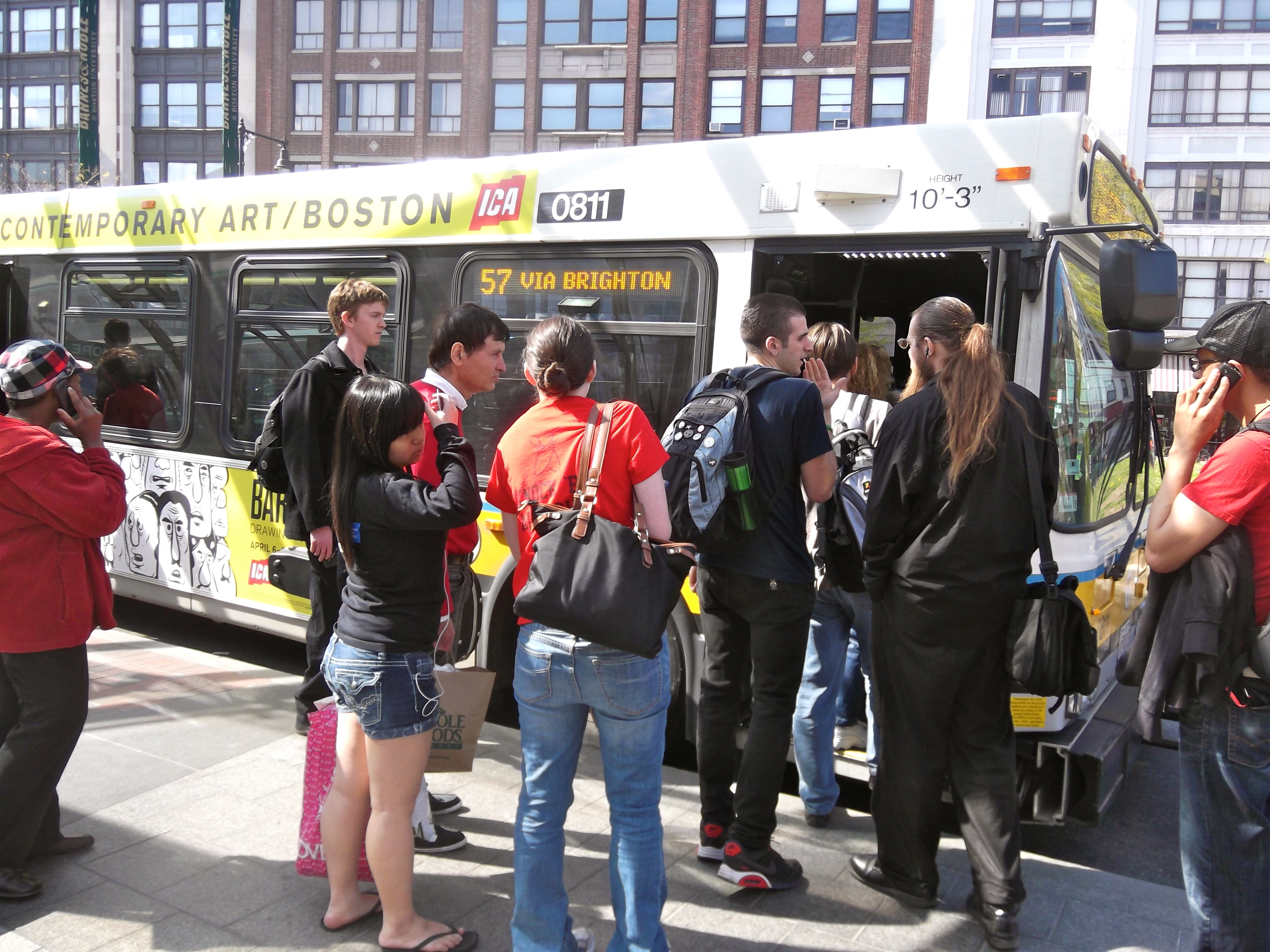 Passengers boarding a #57 bus at Kenmore station